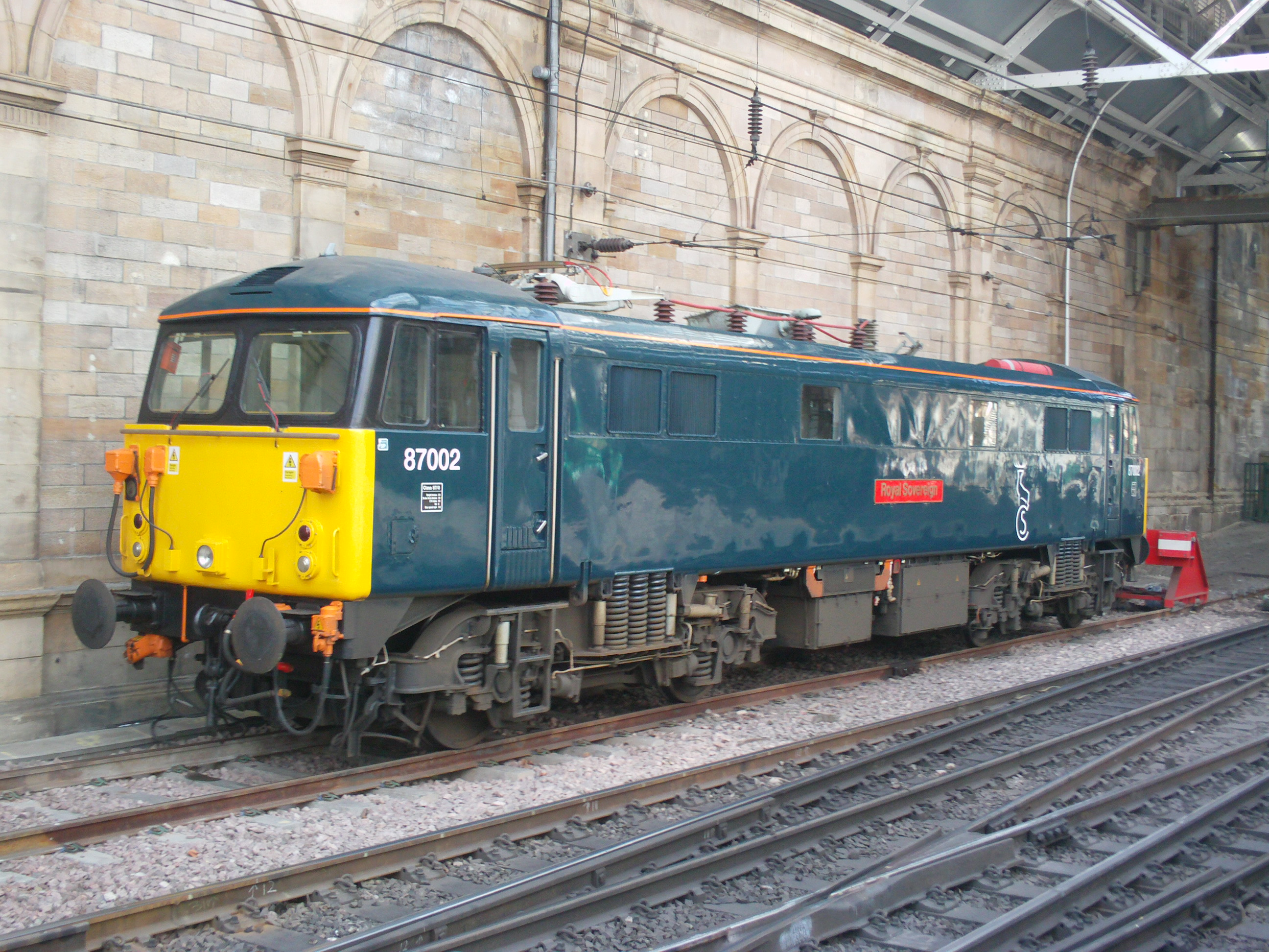 87002 Stands at Waverley